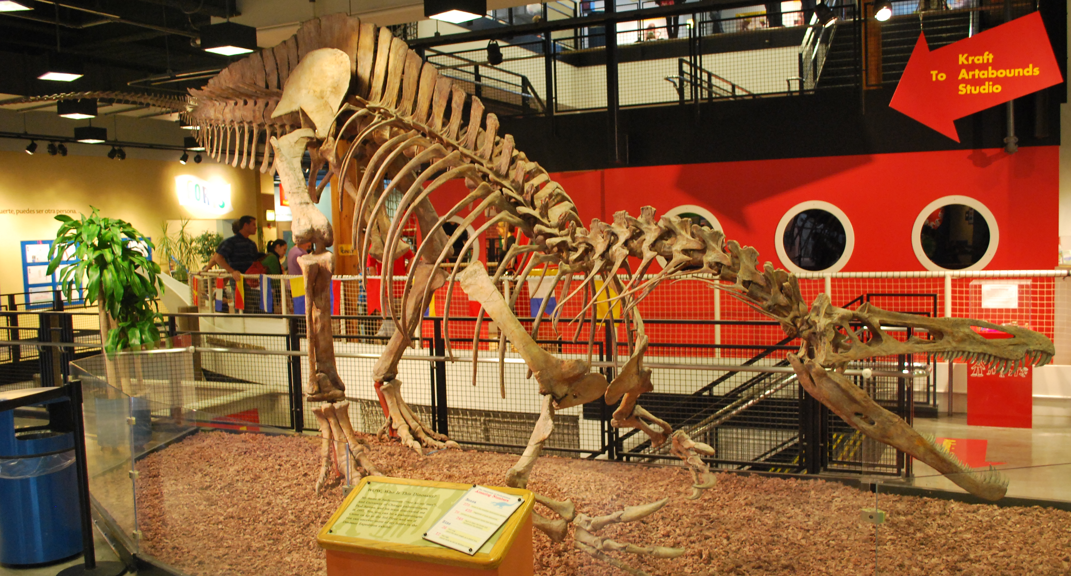 Mounted Suchomimus skeleton, Chicago.